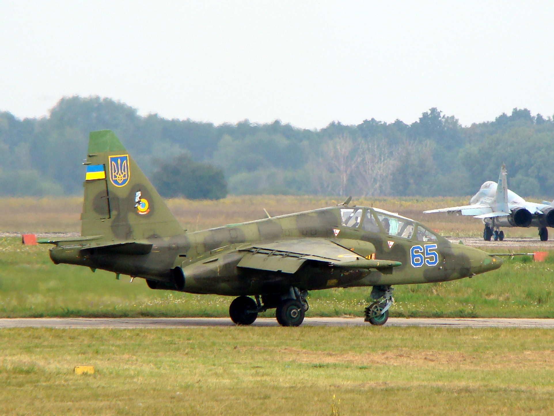 Su-25UB and MiG-29 (9-13) of Ukrainian Air Force.